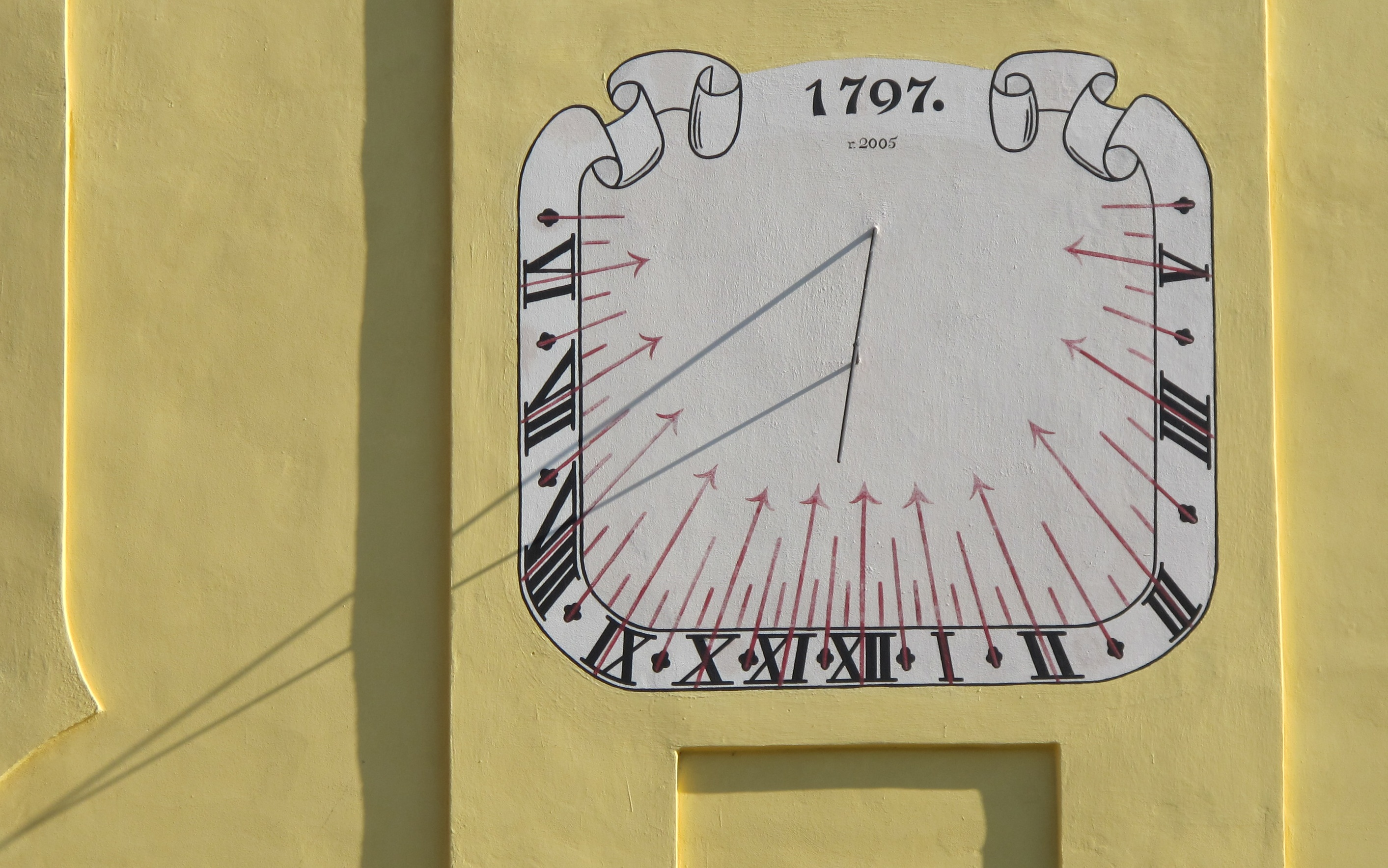 Church of the Holy Trinity, Dobříš in Příbram District